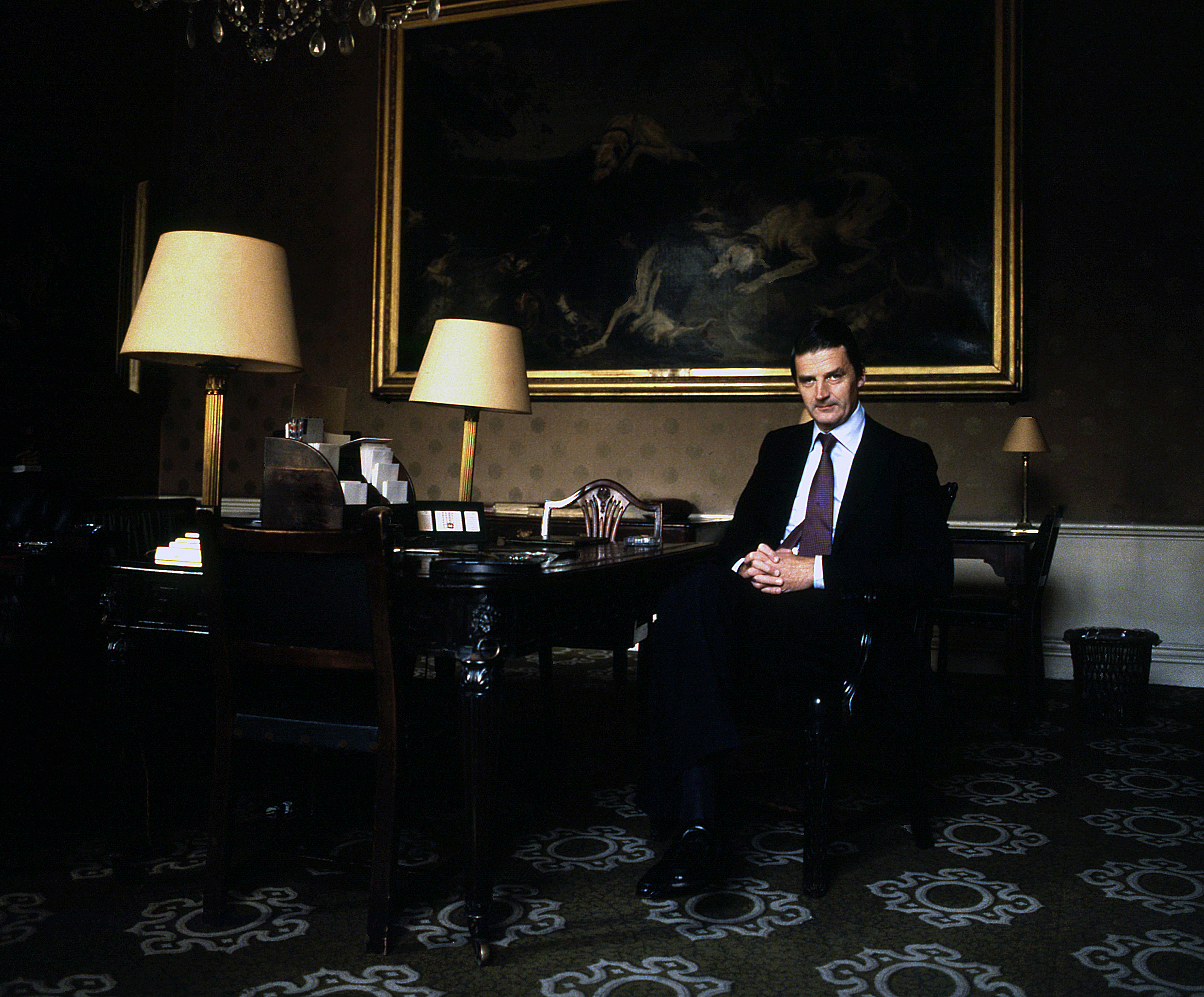 James Hamilton the 5th Duke of Abercorn taken in The Dukes Hotel, London